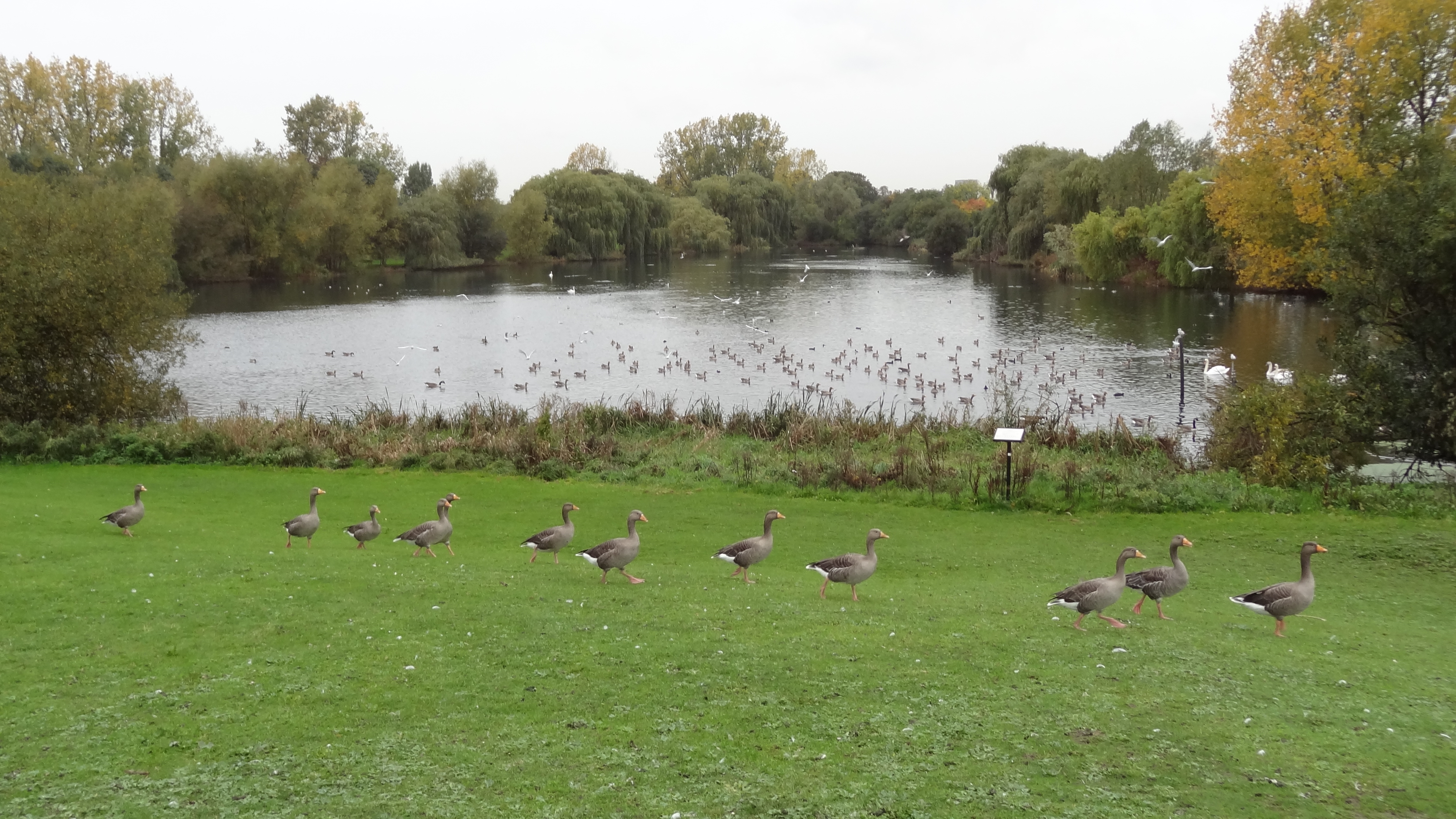 South Mayesbrook Park, designated a Local Nature Reserve, in Dagenham, London